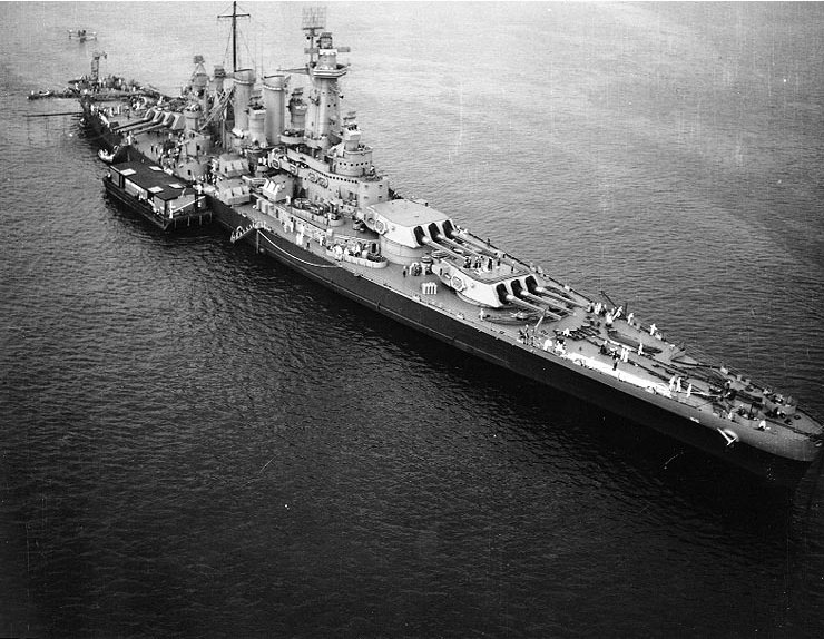 USS Washington (BB-56) off New York City, New York, 21 August 1942. Note barge alongside amidships and OS2U floatplane afloat off her stern.